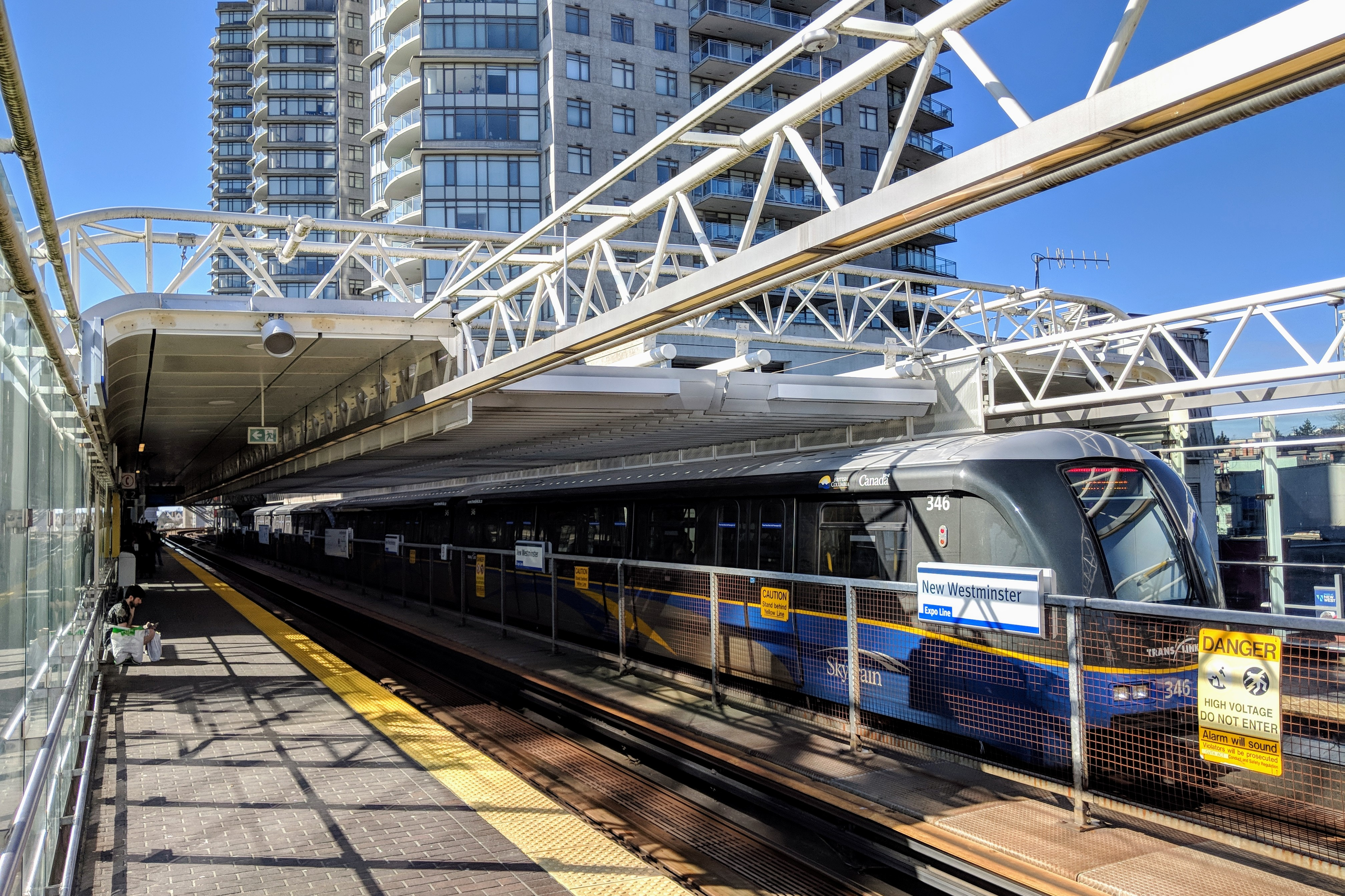 Platform 2 at New Westminster station in New Westminster, British Columbia. An inbound train towards Waterfront can be seen at Platform 1.